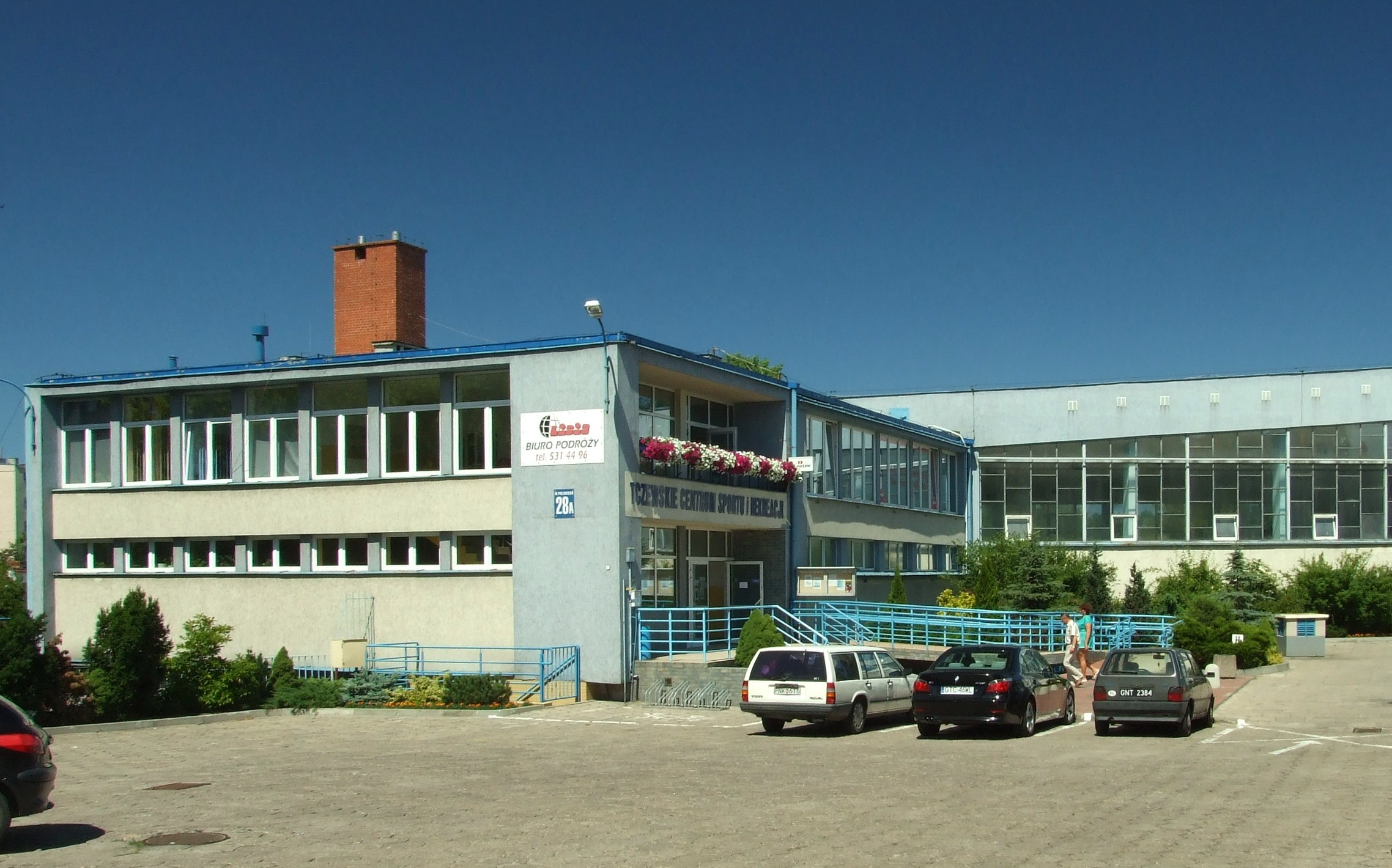 Sports and recreation centre in Tczew at Wojska Polskiego street, Pomorskie vojvodship, PL